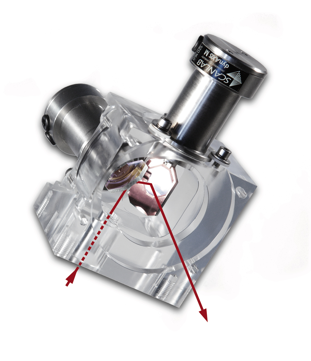 Scanner module with two galvanometer scanners from SCANLAB AG, Germany